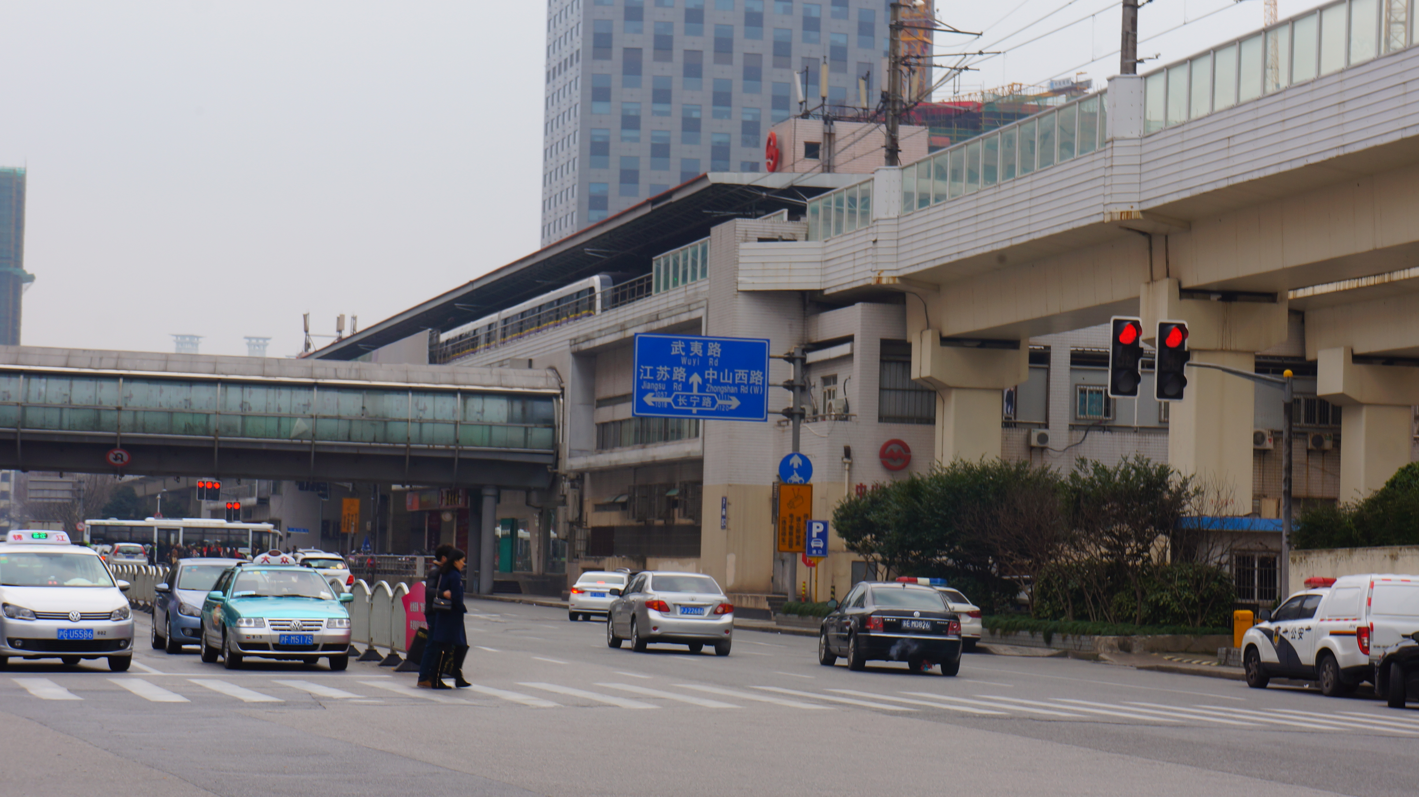 201601 Zhongshan Park Station